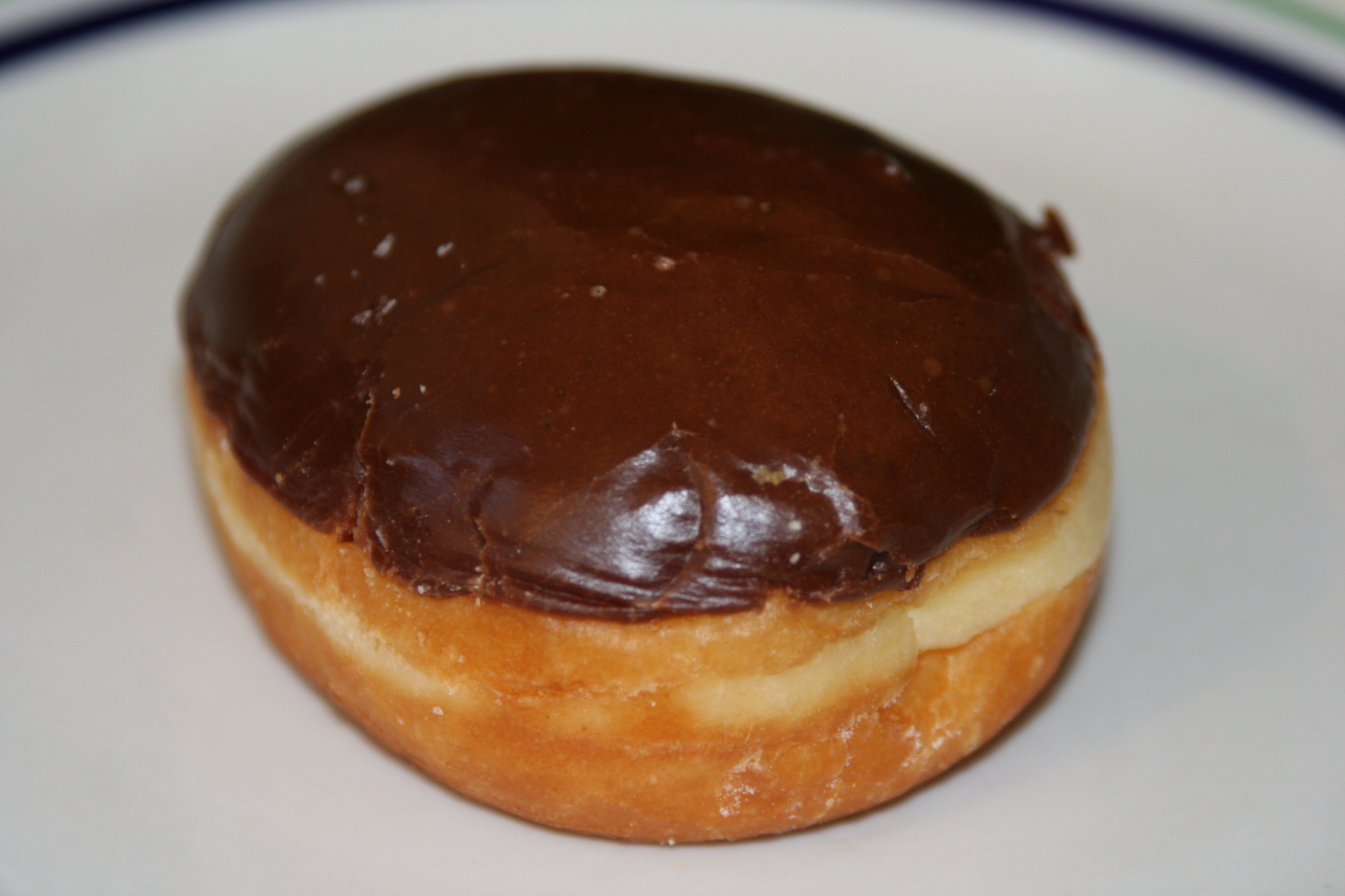 Boston cream doughnut. Photo by ChildofMidnight. Attribution required.